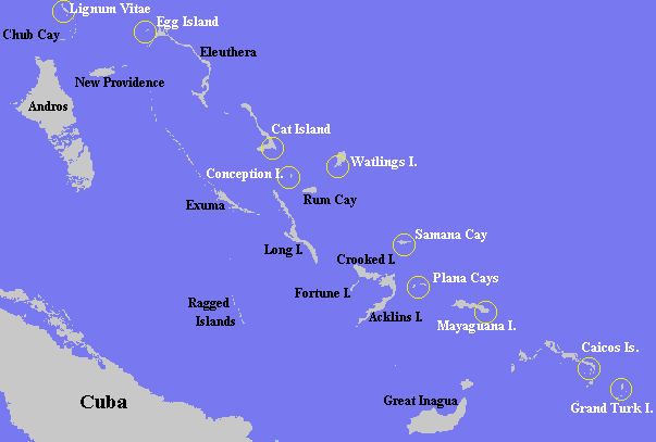 This image made by me, and copyright by me, Keith Pickering (c)1997. I am hereby licensing its use by under the GFDL license. This image can also be found at my website, .